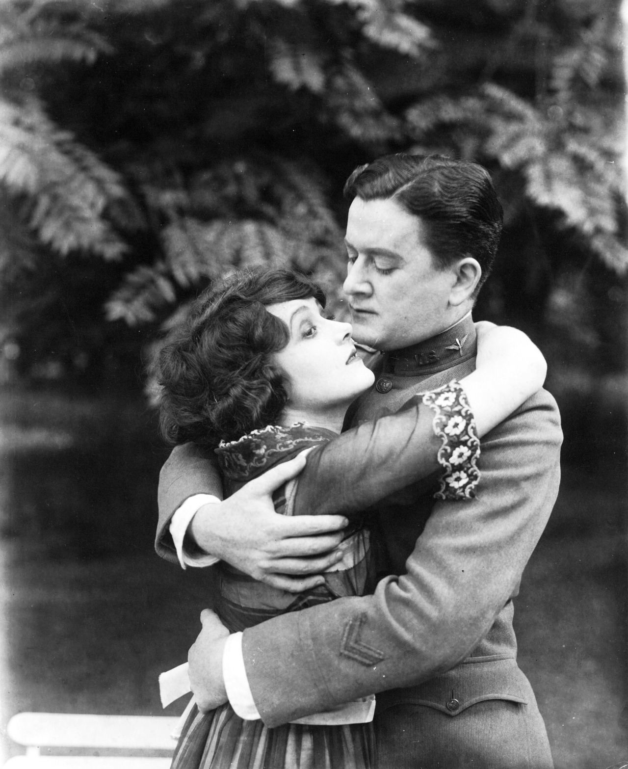 Vivienne Osborne and Thomas Carrigan in Love's Flame (1920) - publicity still